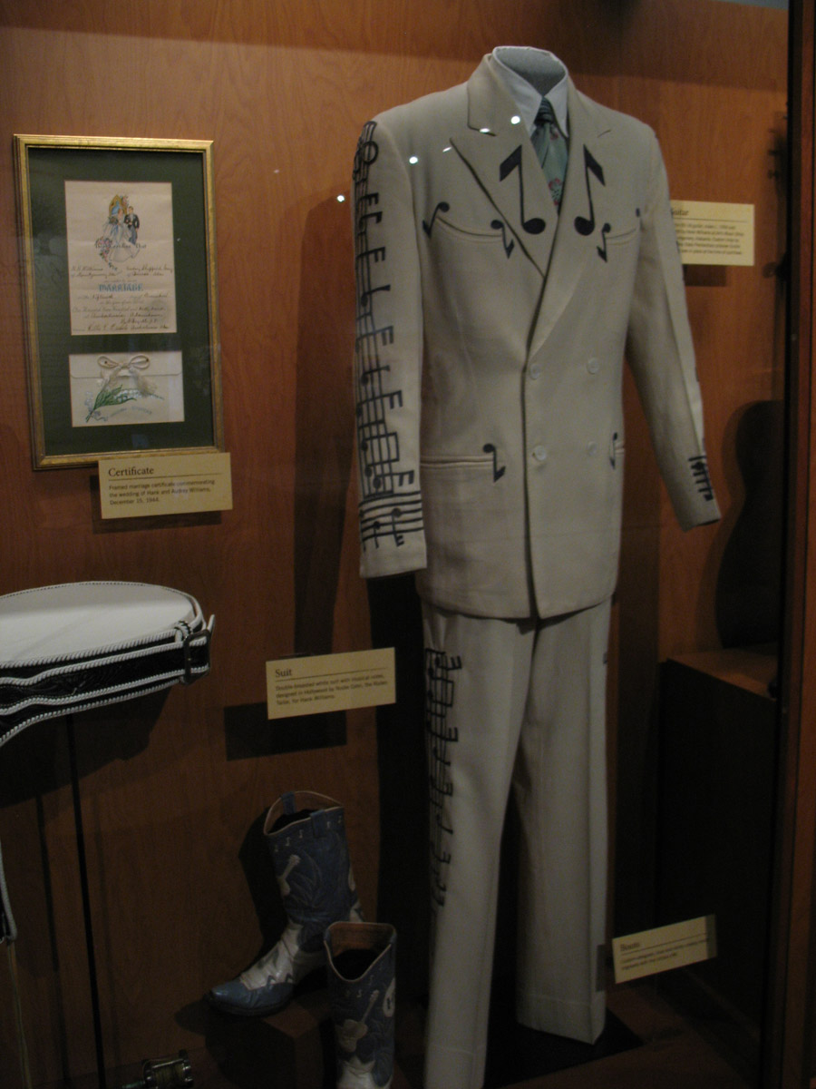 The special exhibition was a look at the Williams family. Country Music Hall of Fame, Nashville, August 6, 2008